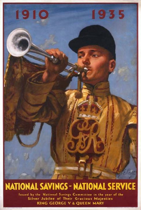 1910 - 1935 - National Savings - National Service whole: the image occupies the majority, held within a purple border. The title is integrated and positioned across the top edge, in purple. The subtitle and text are separate and placed in the lower quarter, in yellow, set against a purple background. image: a half-length depiction of a royal trumpeter. text: 1910 1935 Sep E Scott NATIONAL SAVINGS - NATIONAL SERVICE Issued by the National Savings Committee in the year of the Silver Jubilee of Their Gracious Majesties KING GEORGE V AND QUEEN MARY No. 215. - Issued by the National Savings Committee. Printed for H.M. Stationery Office by Messrs. J. Howitt and Son, Ltd., Nottm. 51-6139.